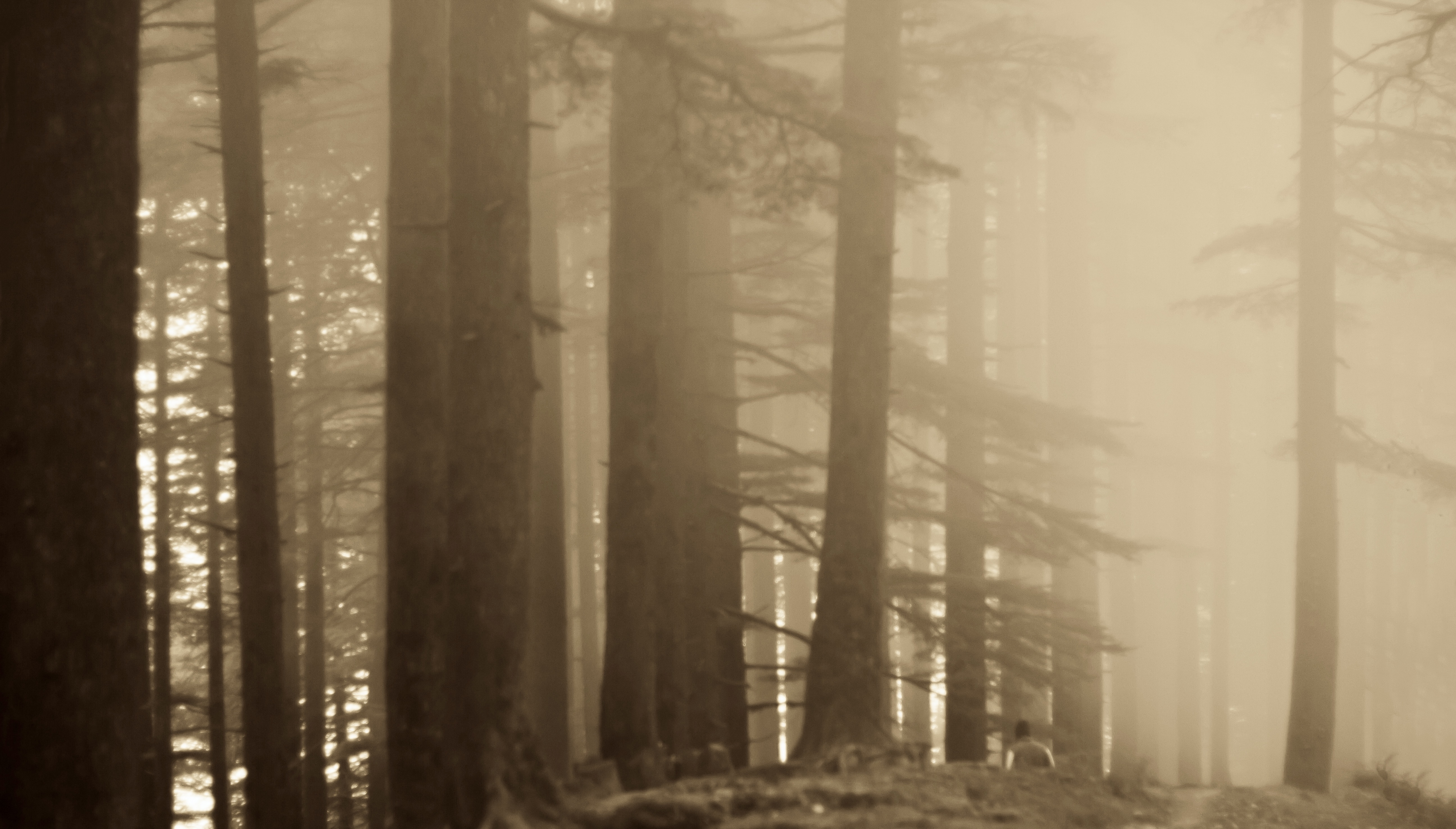 Misty mornings view outside of Forest Rest House